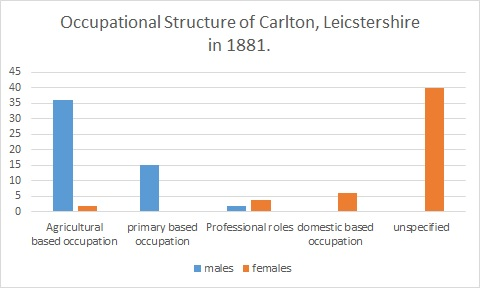 occupational structure in Carlton Leicestershire in 1881 for both males and females